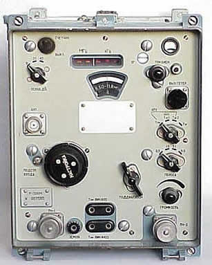 R-326M HF receiver (USSR)